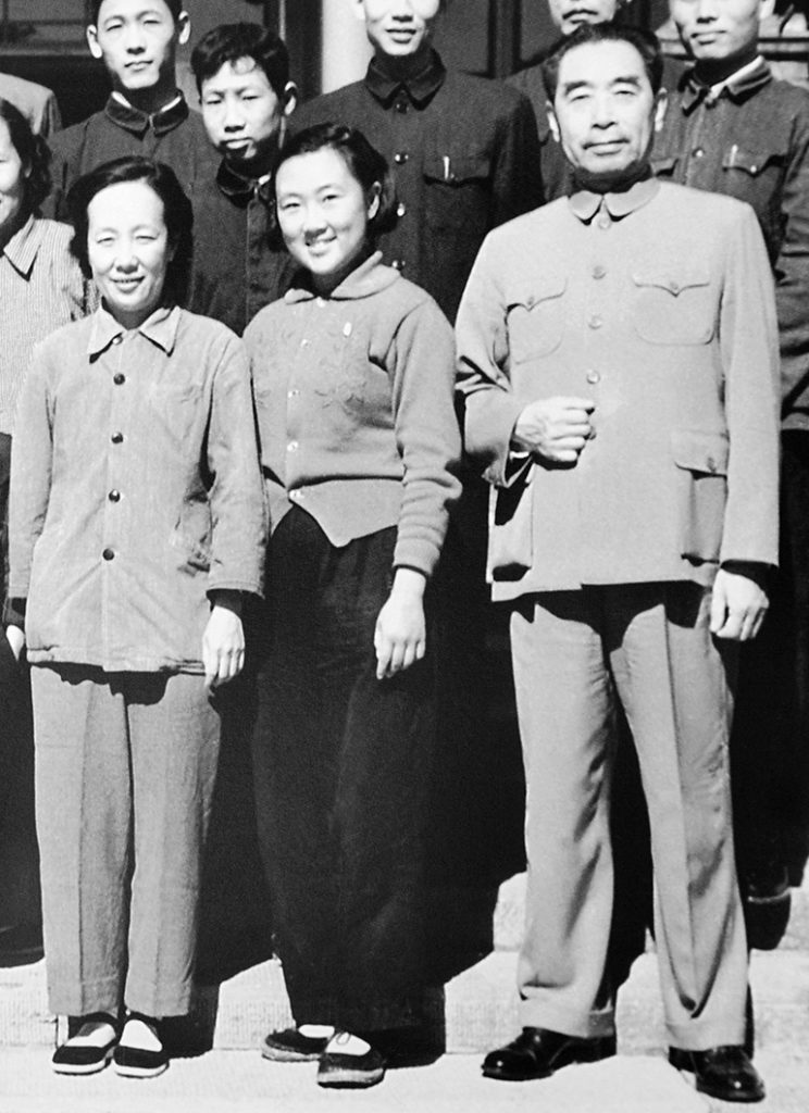 Zhou Bingde (center), as a teenager, 1955; with her uncle, Zhou Enlai (right)